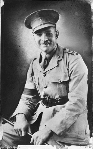 Captain Lionel Colin Matthews, GC, MC (August 15, 1912(1912-08-15) - March 2, 1944) was an Australian Army Signals Corps officer awarded the George Cross in recognition of gallant and distinguished services whilst a prisoner-of-war in Japanese hands during the Second World War.